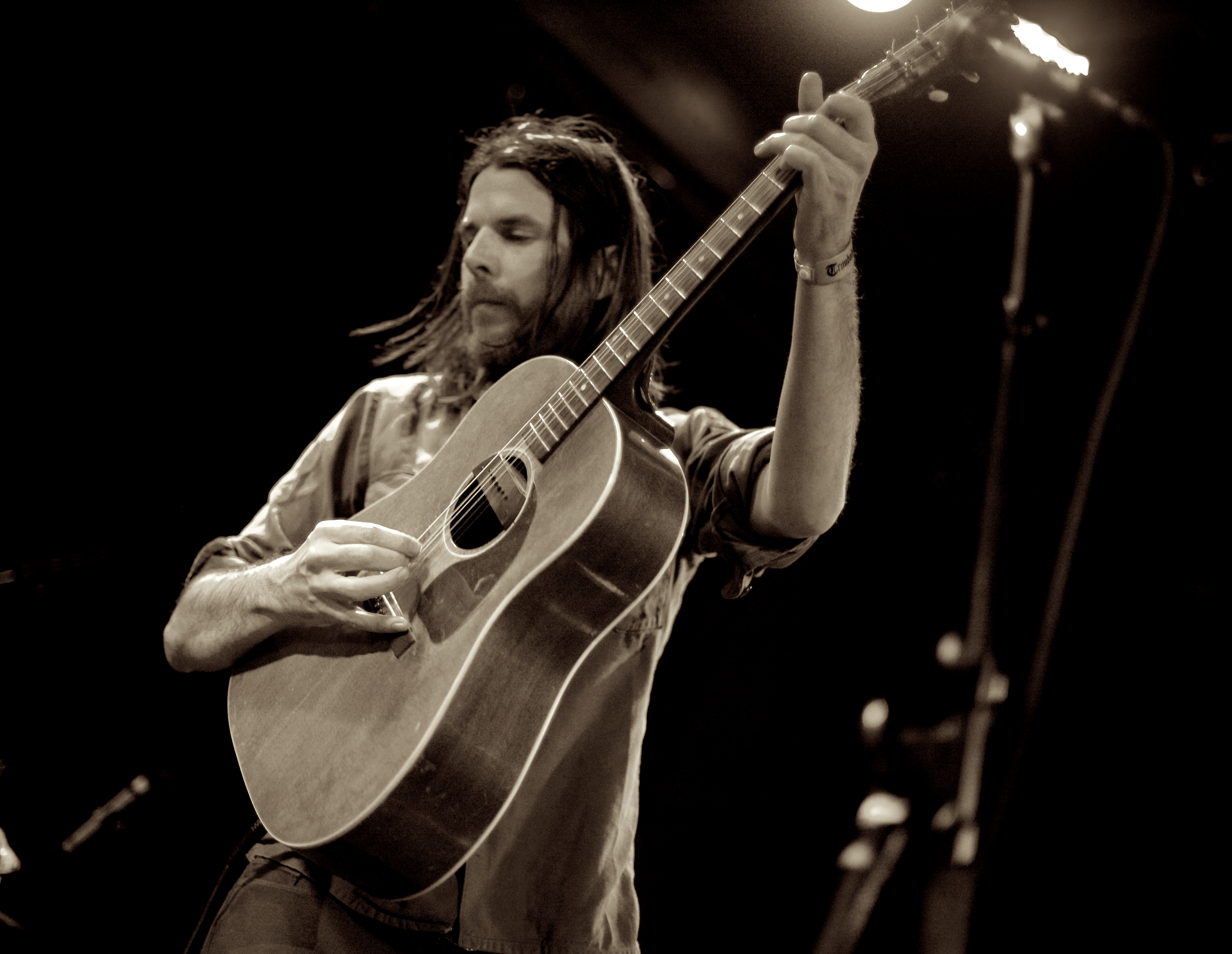 Jonathan Wilson performing at the Troubadour in Los Angeles, CA on February 5, 2011.